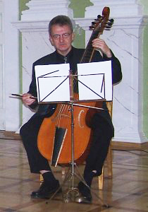 Viola da gamba played by Marcin Zalewski "Ars Nova" group member